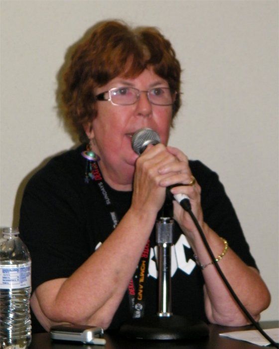 Editor and moderator Ginjer Buchanan.